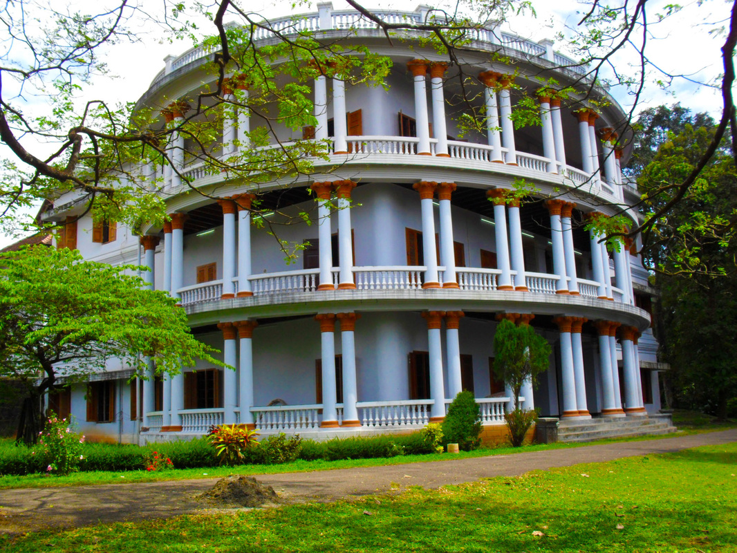 Thripunithura Hill palace Museum, is the largest archaeological museum in Kerala and the erstwhile official residence of the Cochin Royal Family, was built in 1865. The palace complex consists of 49 buildings in the traditional architectural style of Kerala and is surrounded by 52 acres of terraced land with ponds, fountains, garden and lawns. A full fledged ethno archaeological museum and Kerala's first ever Heritage museum are the main attractions here. Hill Palace is located 16km east of Cochin in Trippunithura, a satellite town of Cochin.